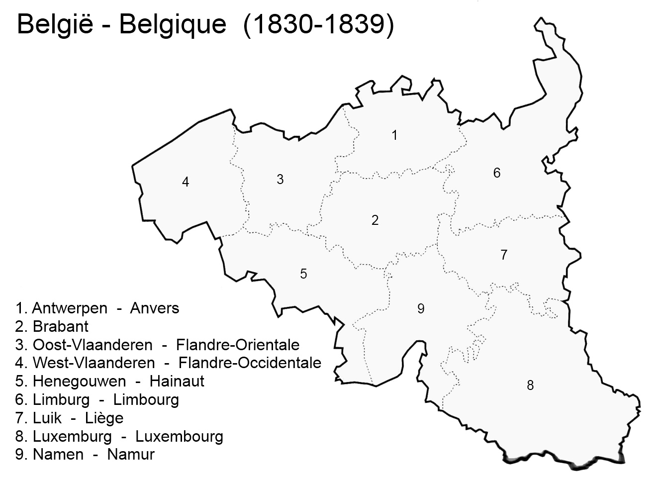 Map of Belgium (independent since 1830) before the Treaty of London (1839), which detached parts of Luxembourg and Limburg from Belgium (Zeelandic Flanders as well but this is not included on this map).